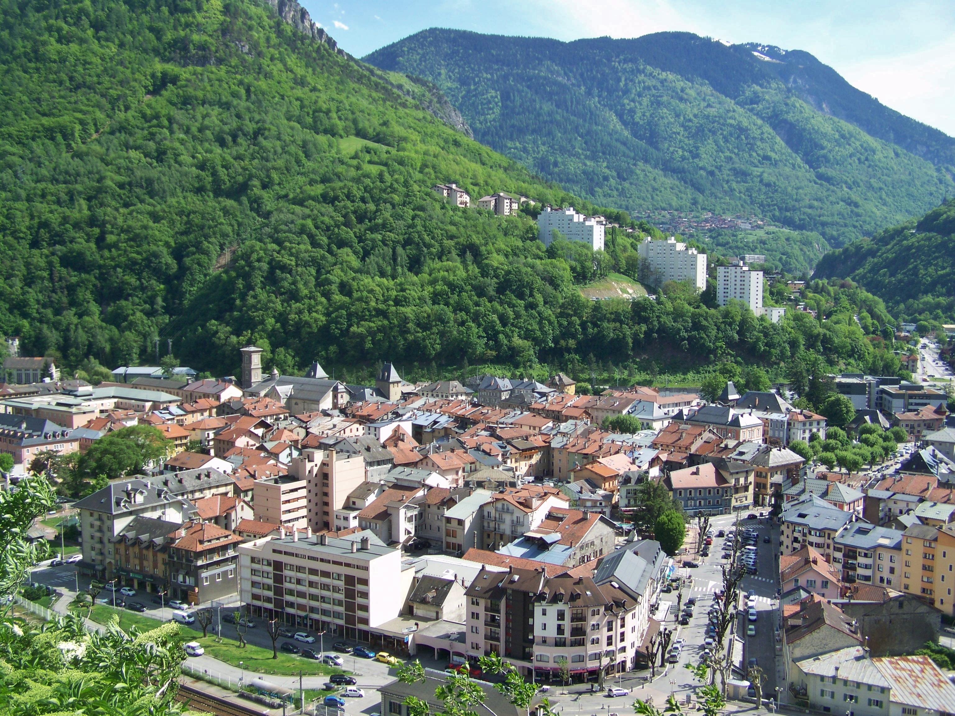 Panoramic view of the city of Moûtiers in Savoie, France.